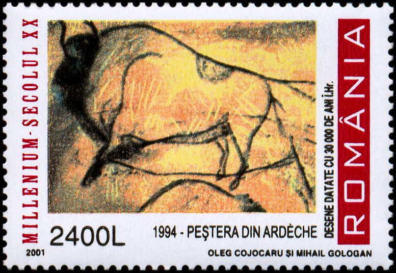 1966 Romanian Post; 2400 Leu; multicolored; representing Steppe Wisent - Bison priscus - Chauvet Cave Cave painting; Series - Millenium; Design - Oleg Cojocaru and Mihail Gologan